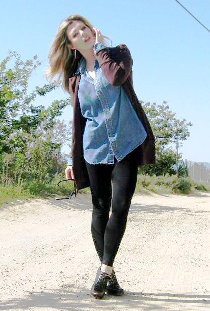 Woman wearing a denim shirt and leggings.